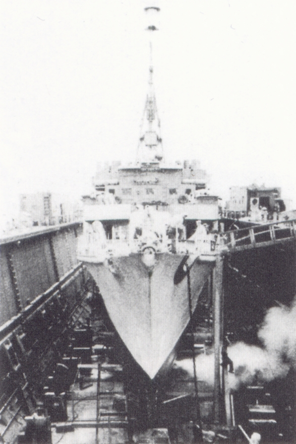 Former T 35 as DD 935, August 1945 in Boston, Massachusetts.